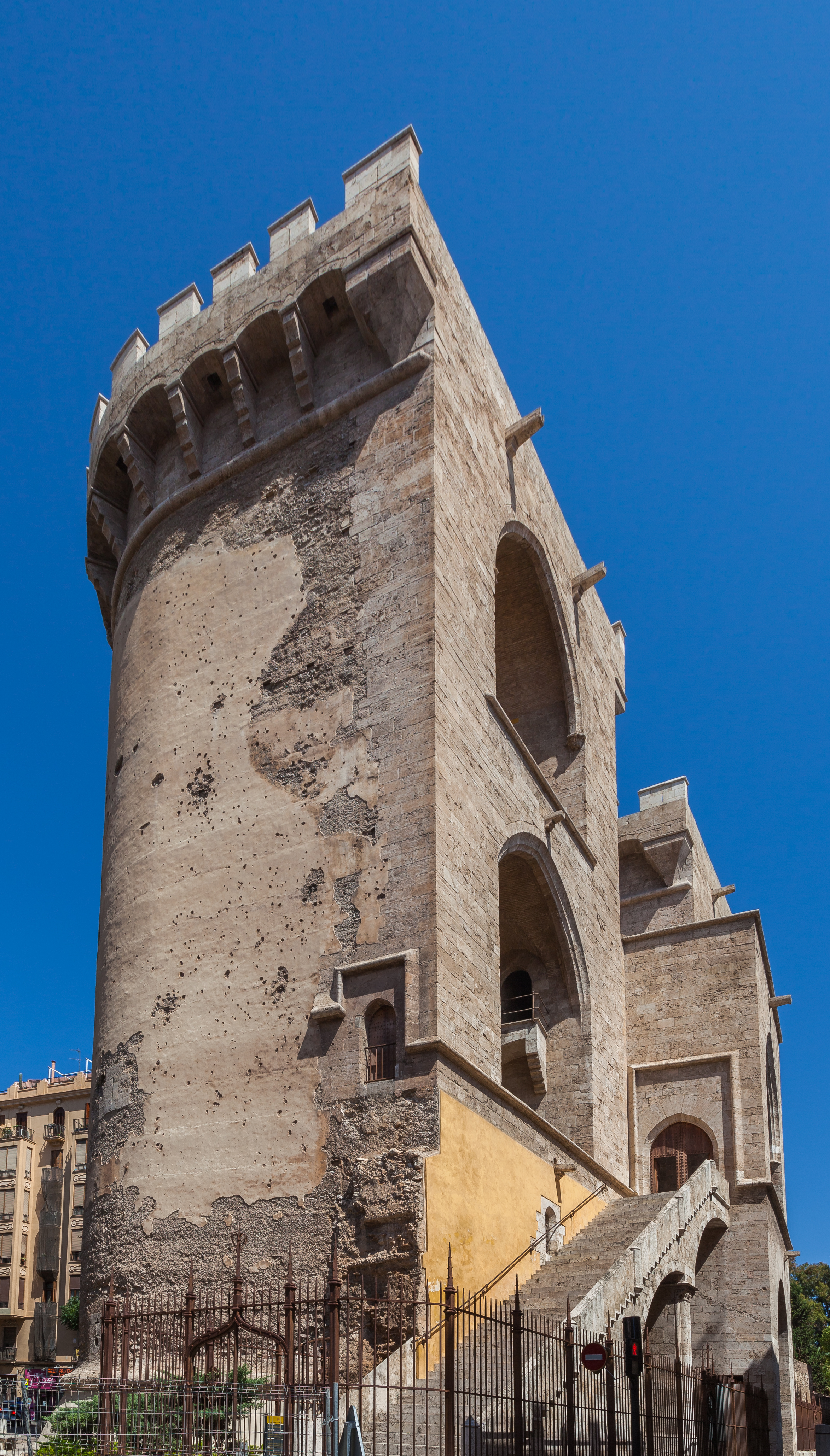 Cuart Towers, Valencia, Spain